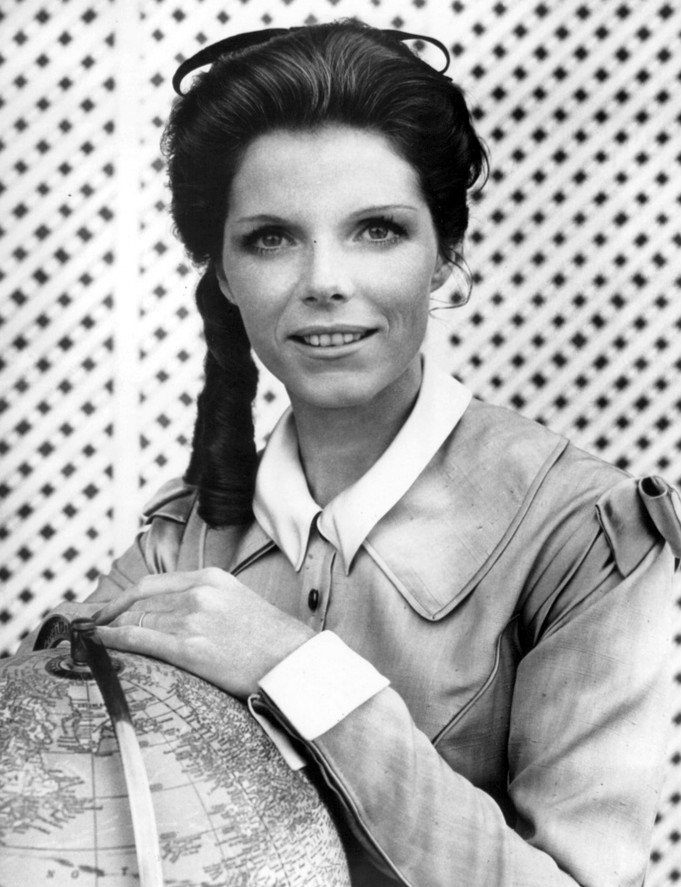 Photo of Samantha Eggar as Anna from the television program Anna and the King.